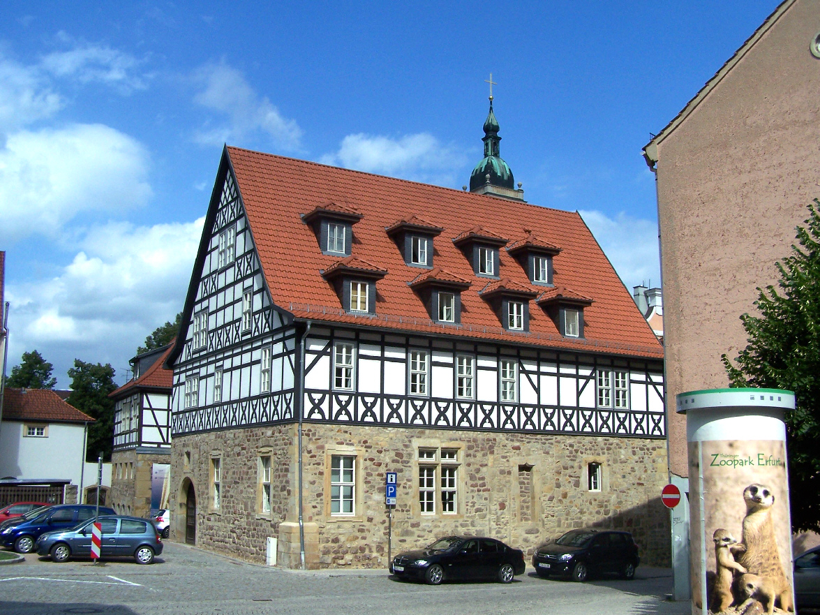 The Creuznacher-House a part of the former palace of the dukes of Saxon-Eisenach.